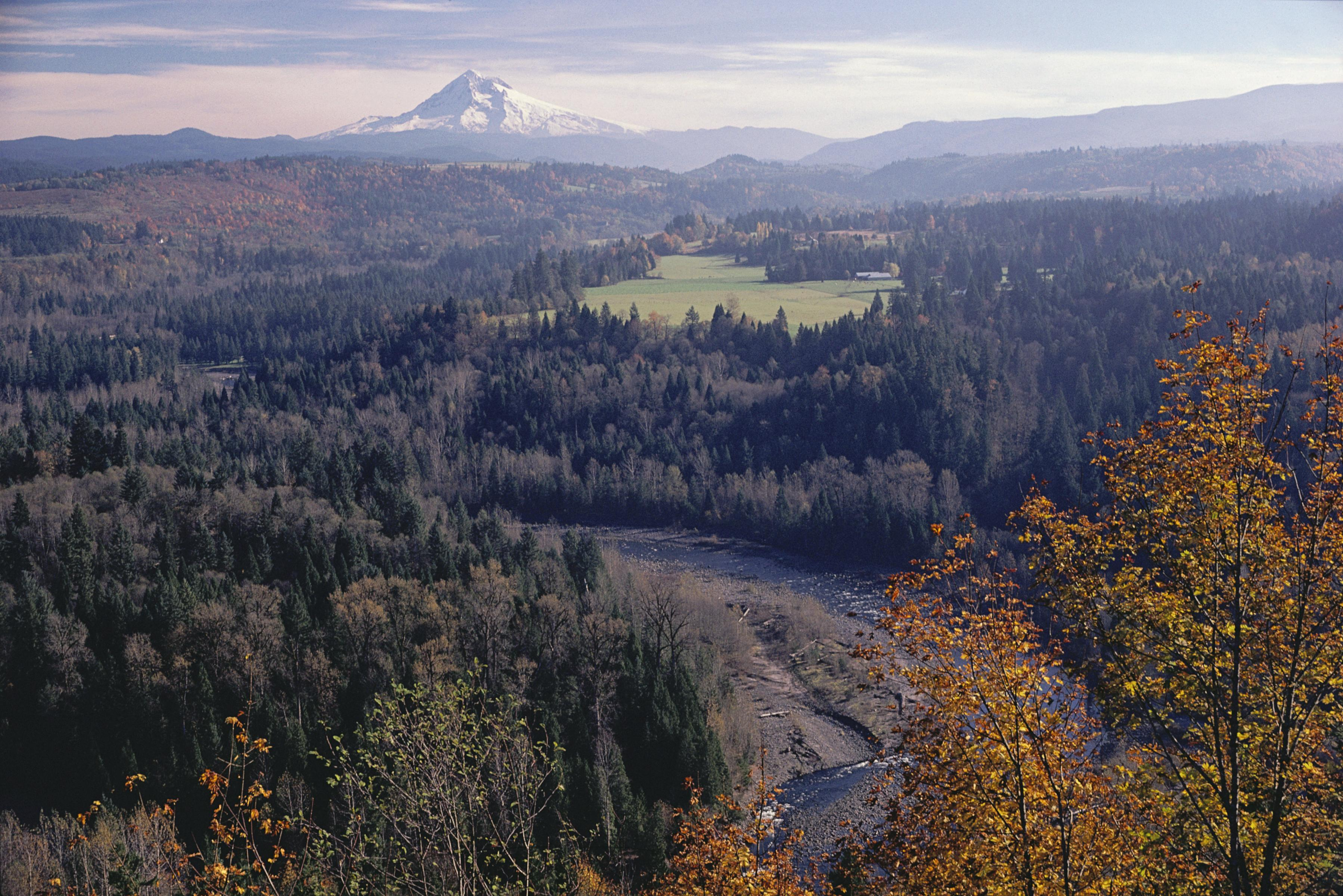 Photo Credit